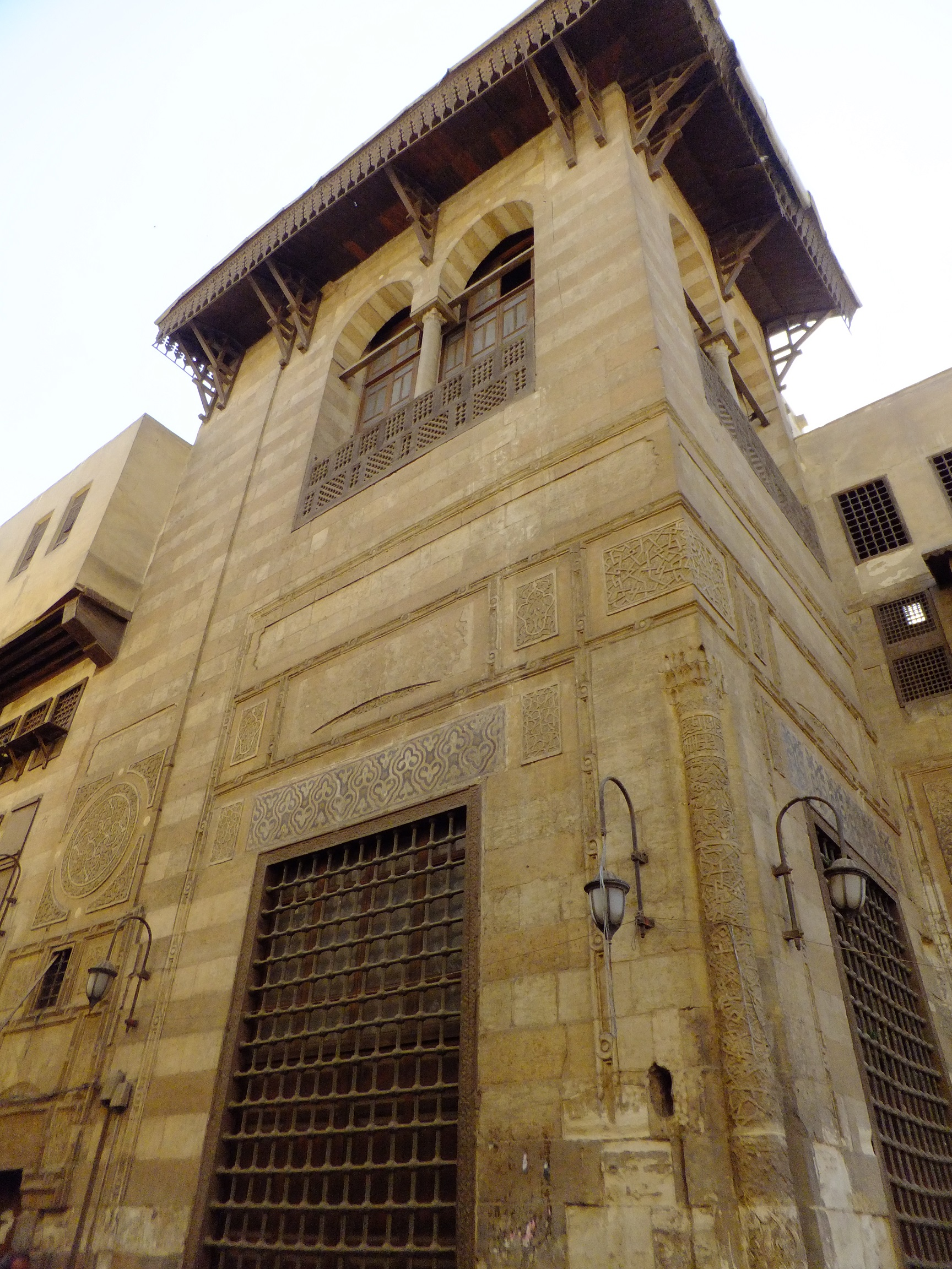 The sabil-kuttab of the wikala of Sultan Qa'it Bay near al-Azhar; the sabil is below, the kuttab above.